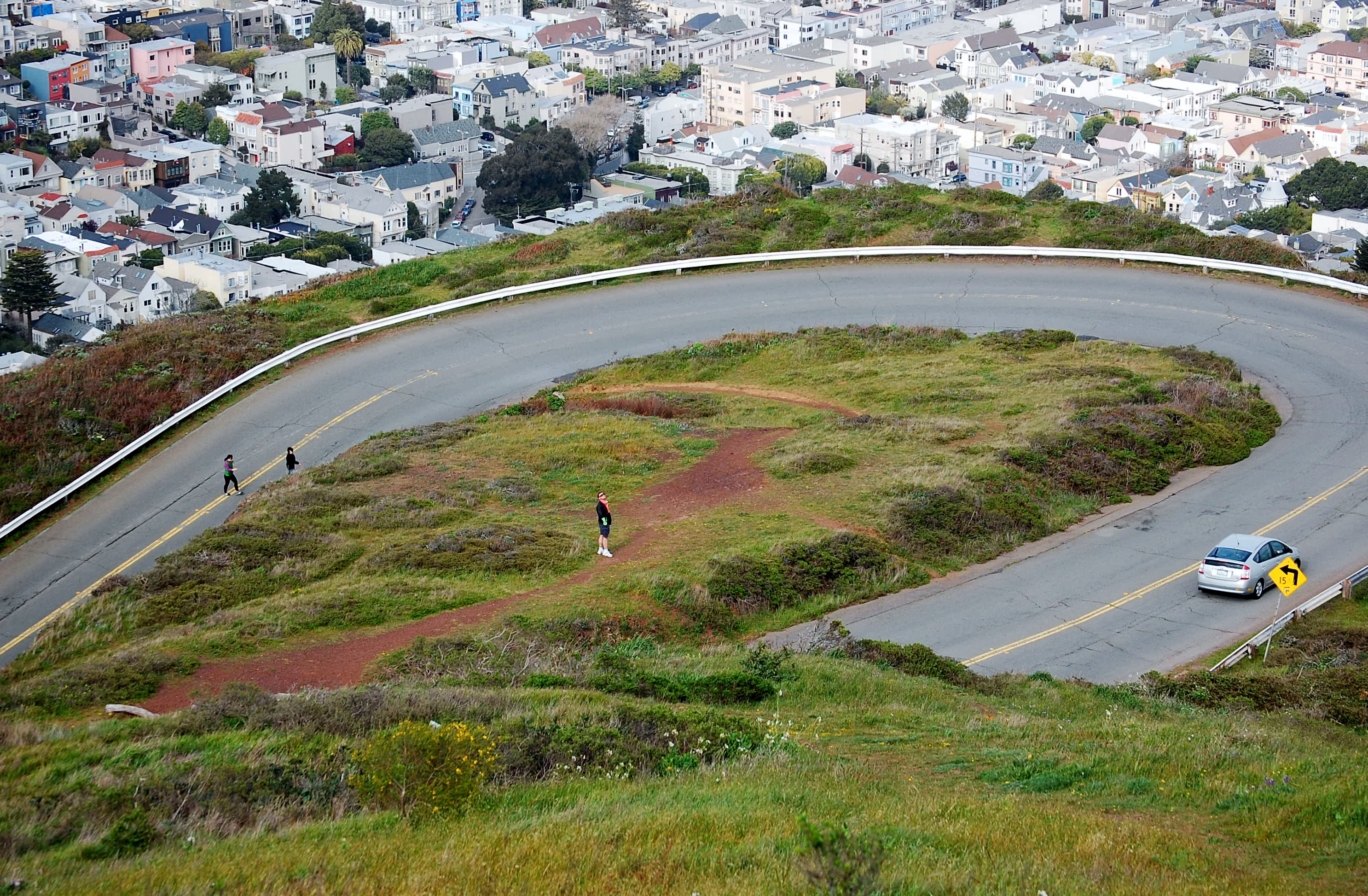 Road to Twin Peaks